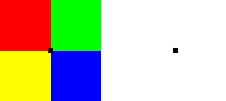 Fixate the black square in the center of the colored squares for about 30 seconds, then fixate the black square in the white area. An afterimage with opponent colors (according to Hering's theory) appears.